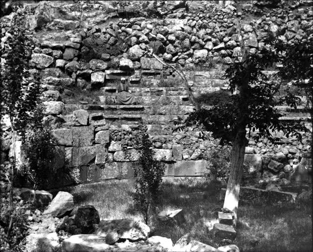 Picture of ruin known as Qanawat (Syria), taken in year 1900 by Gertrude Bell